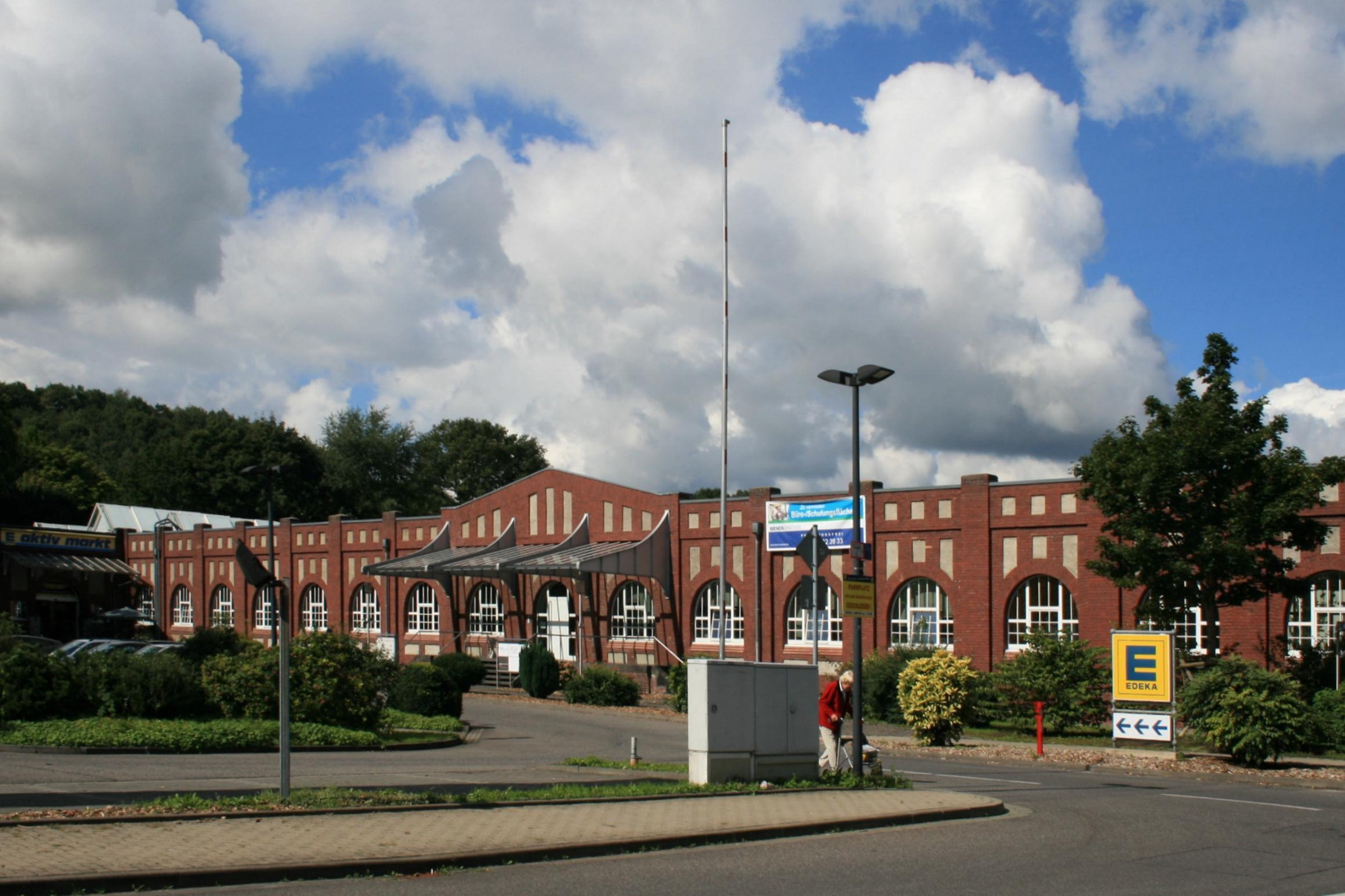 Cultural heritage monument No. D 006 in Mönchengladbach